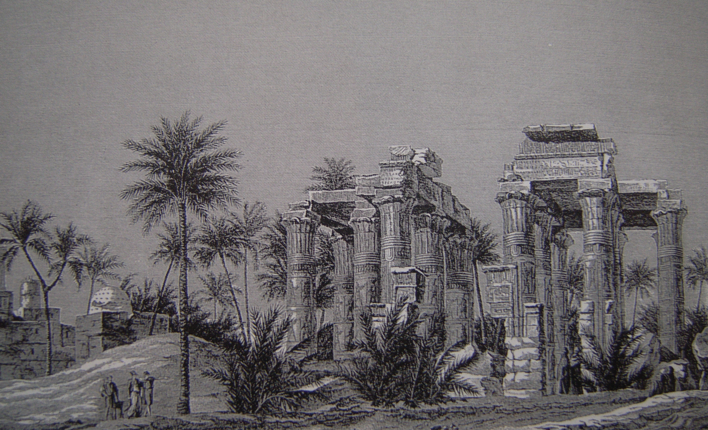 The view if Ptolemaic temple in Antaepolis (Qau el-Kebir) in Egypt